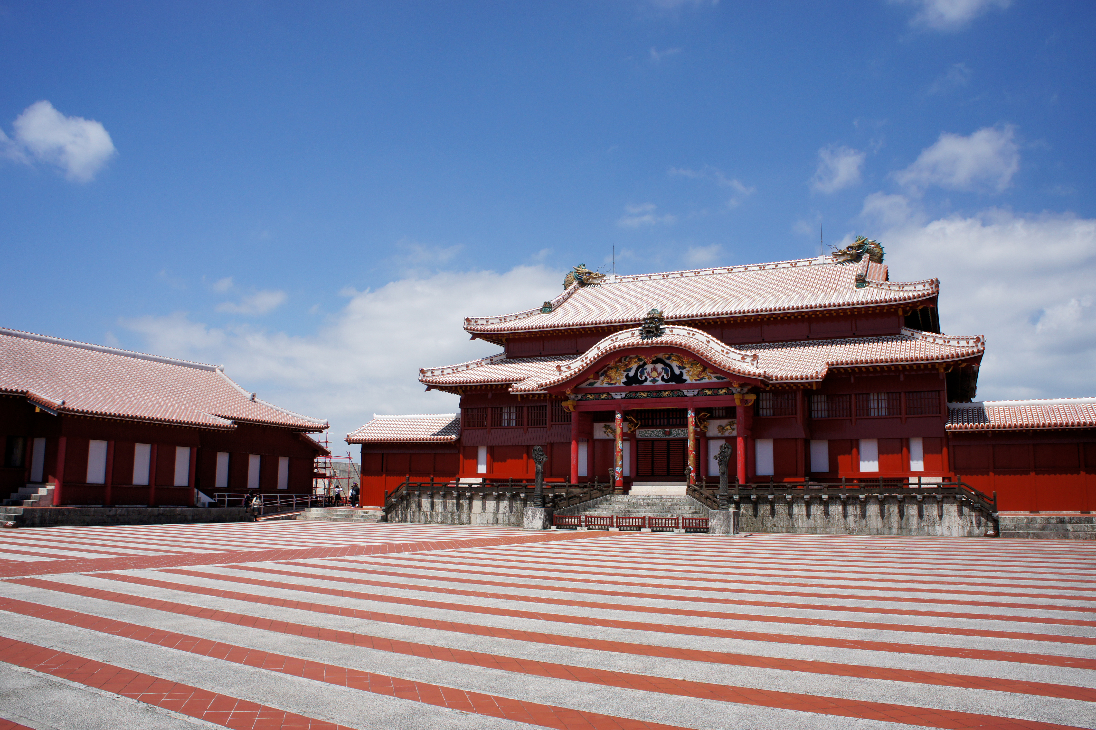 at Shuri Castle in Naha, Okinawa prefecture, Japan